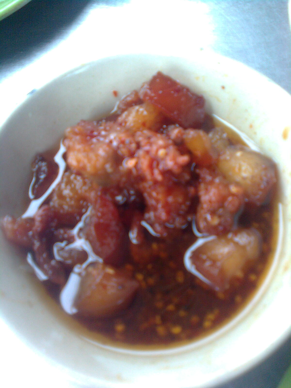 Vietnamese braised meat